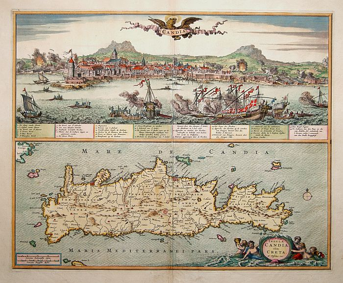 Map of Creta